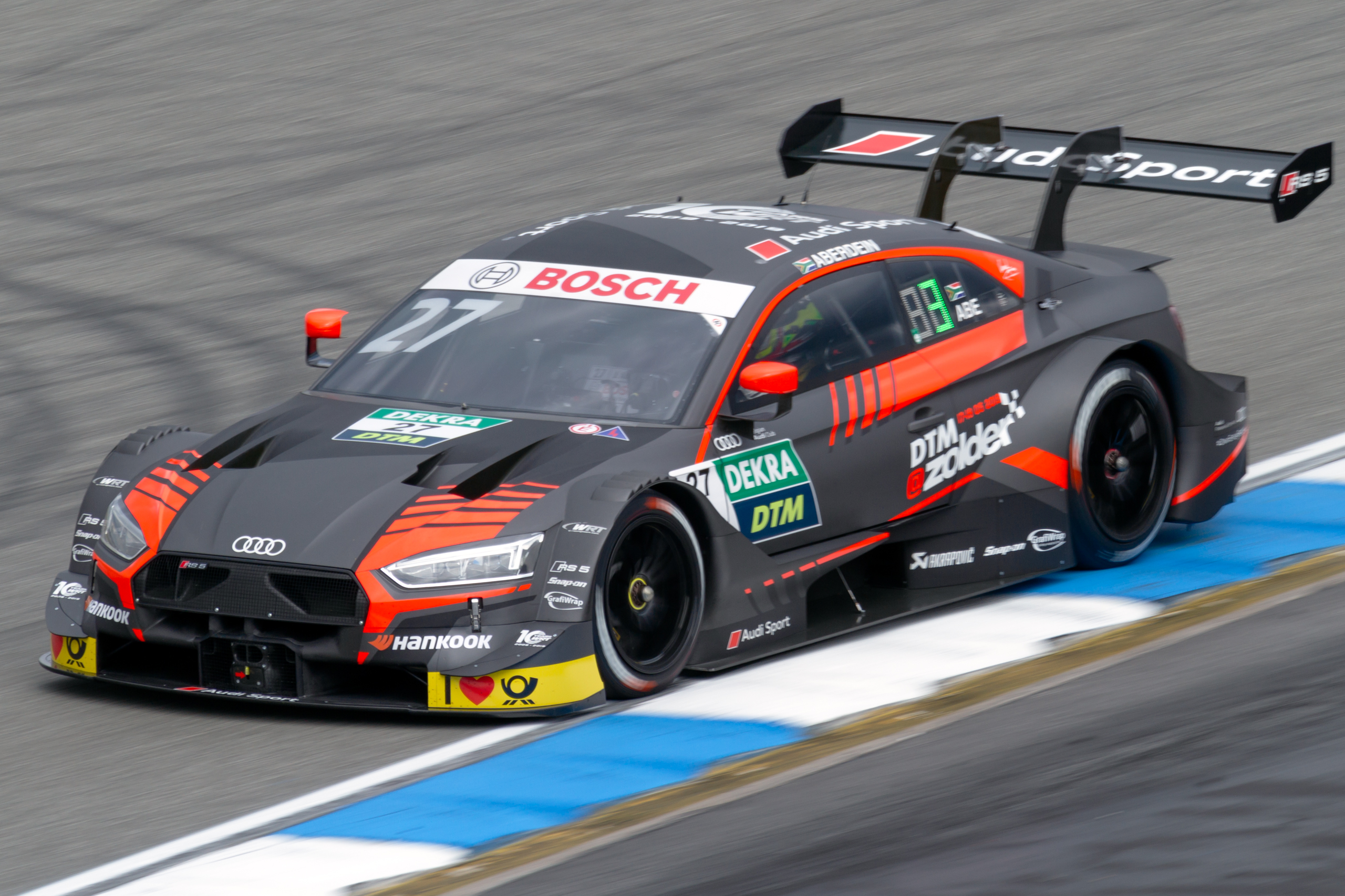 2019 DTM Hockenheimring (May): Audi RS5 Turbo DTM of Jonathan Aberdein